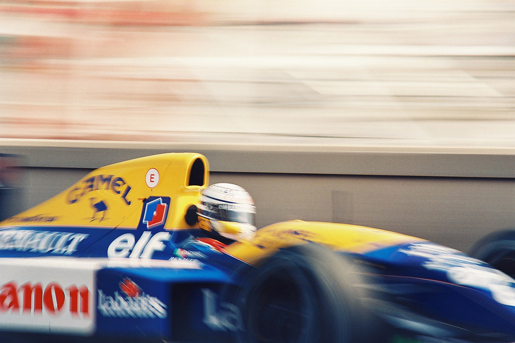 Riccardo Patrese driving for WilliamsF1 at the 1992 Monaco Grand Prix.